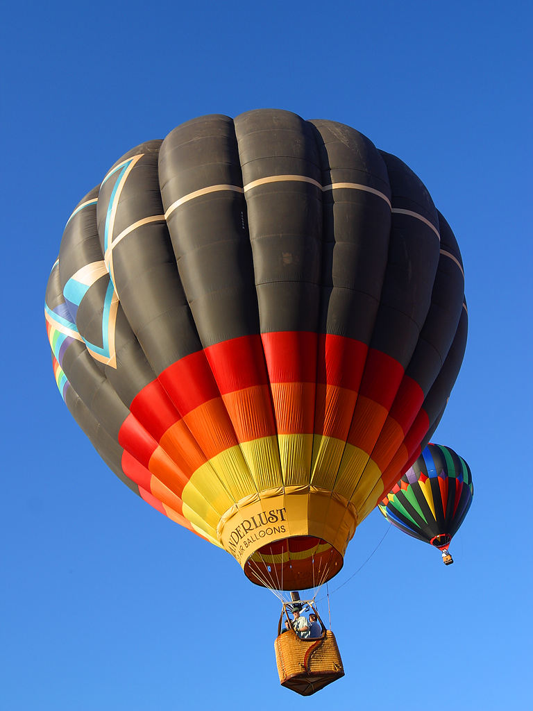 Hot air ballooons owned by Gary & Diana Moore, Wanderlust Balloons - Lake Havasu City, AZ, USA